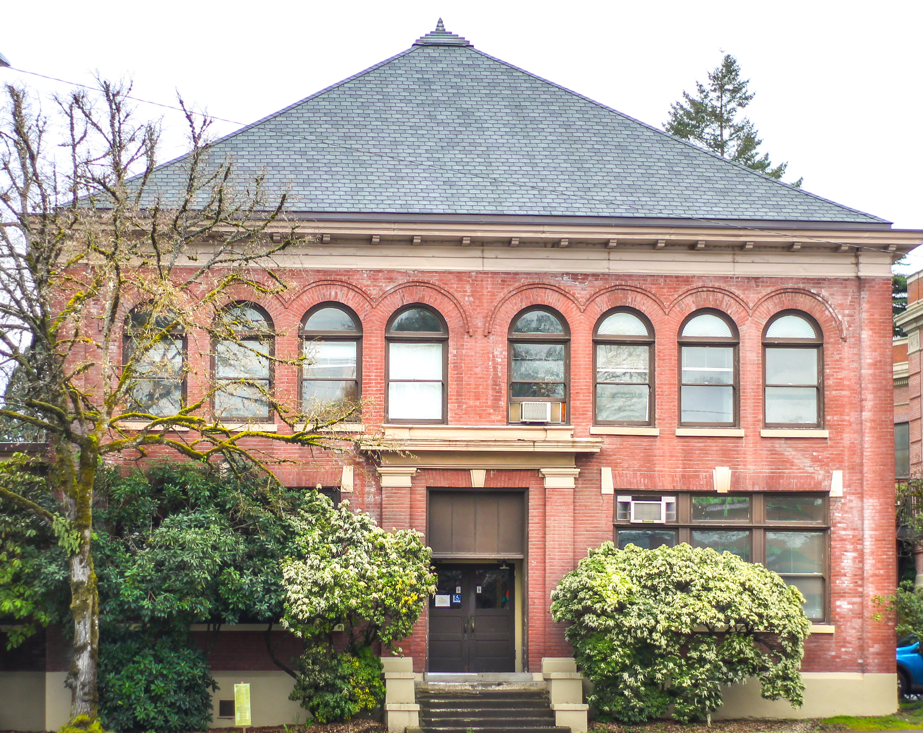 The front of Merryfield Hall